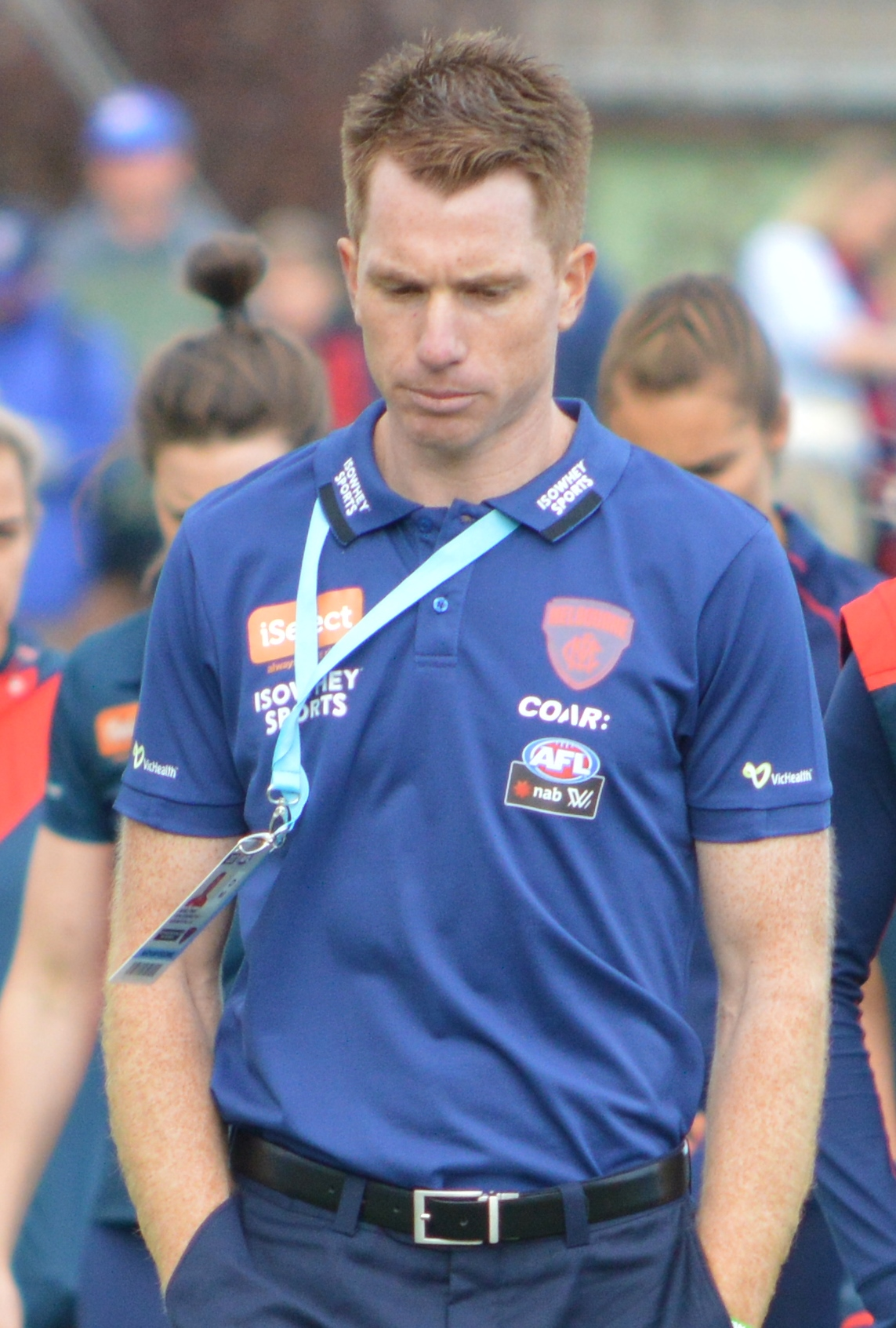 Mick Stinear during the round 3 AFL Women's match between the Western Bulldogs and Melbourne on 18 February 2017 at Whitten Oval in West Footscray, Victoria